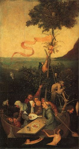 Fragment of the left wing of a triptych; see File:Jheronimus Bosch 003.jpg for the second fragment of the left wing of this triptych, File:Jheronimus Bosch 050.jpg for the right wing, and File:Jheronimus Bosch 112.jpg for the exterior.